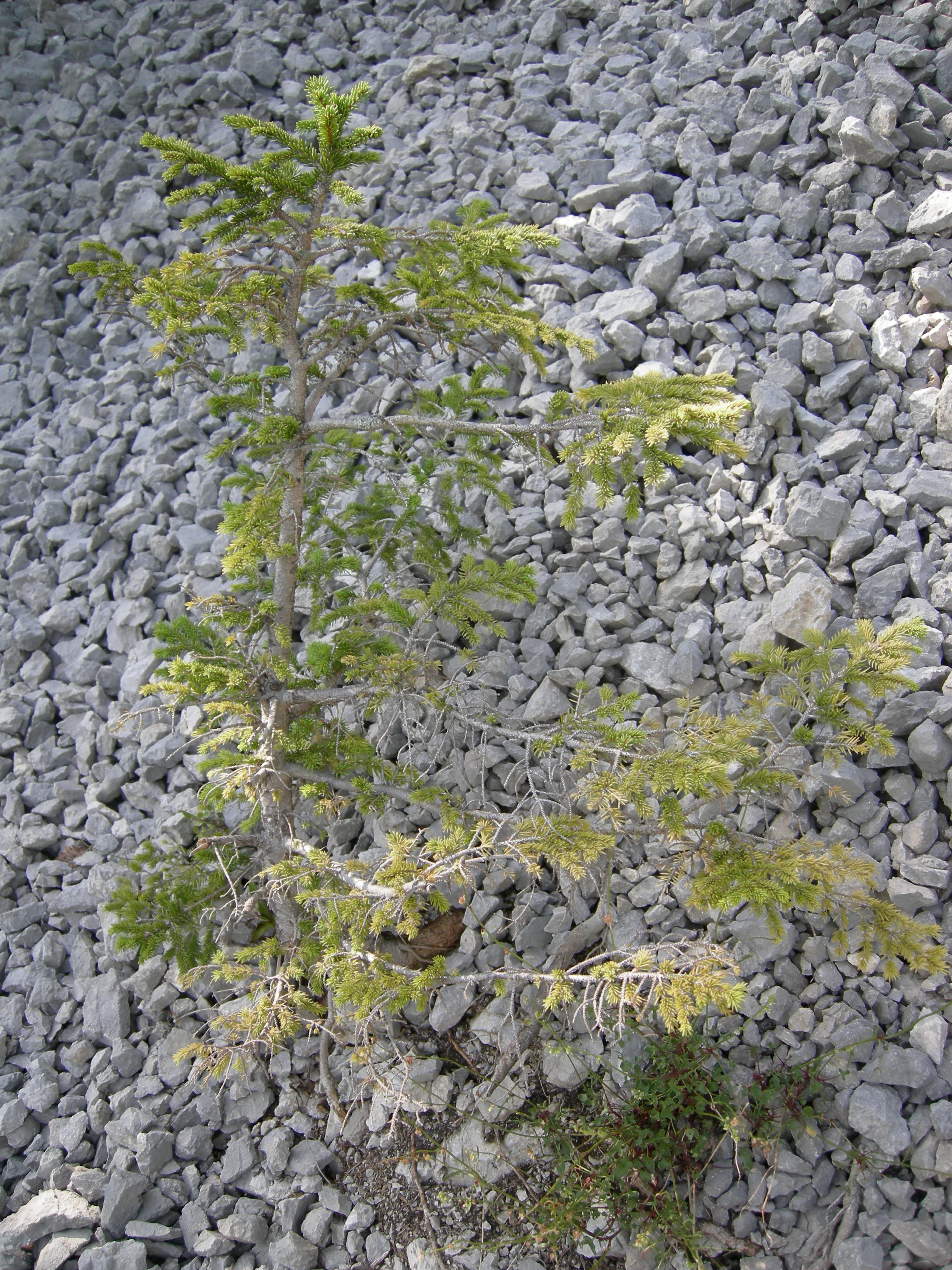 Scree near Castle Kamen, Begunje na Gorenjskem, Slovenia